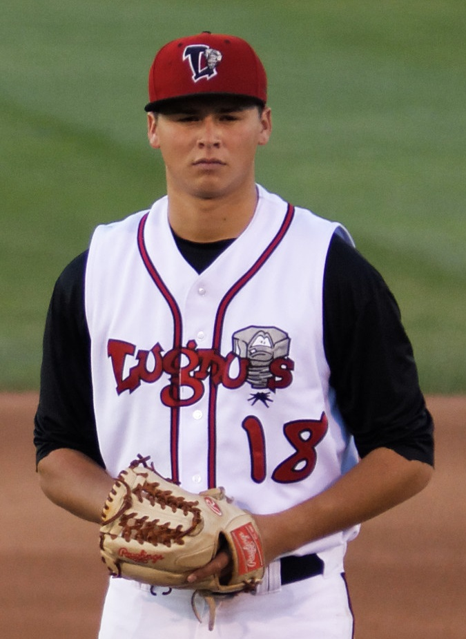 Justin Maese pitching for the Lansing Lugnuts in 2016